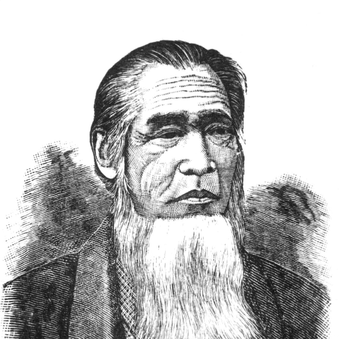 Nara Senji.